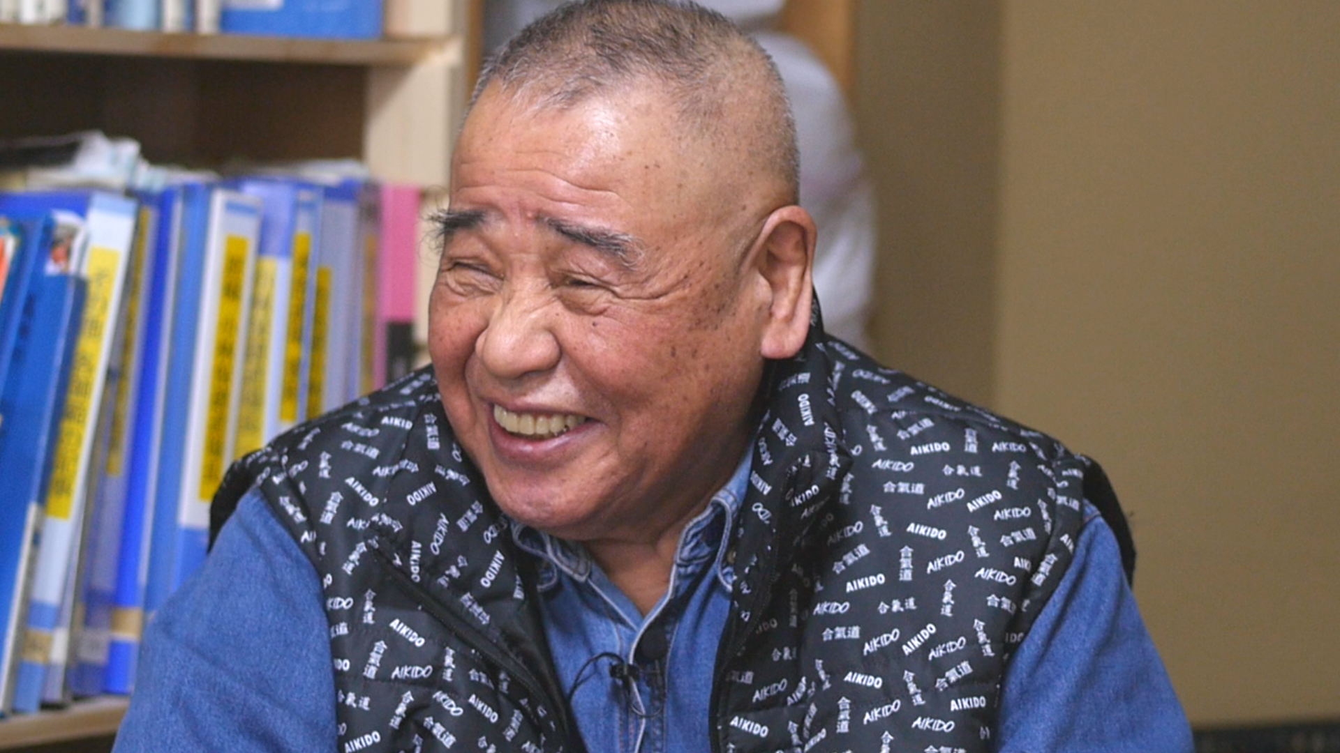 Yasuo Kobayashi, 8th Dan aikido Shihan in his Kodaira Dojo (Tokyo, 2017)